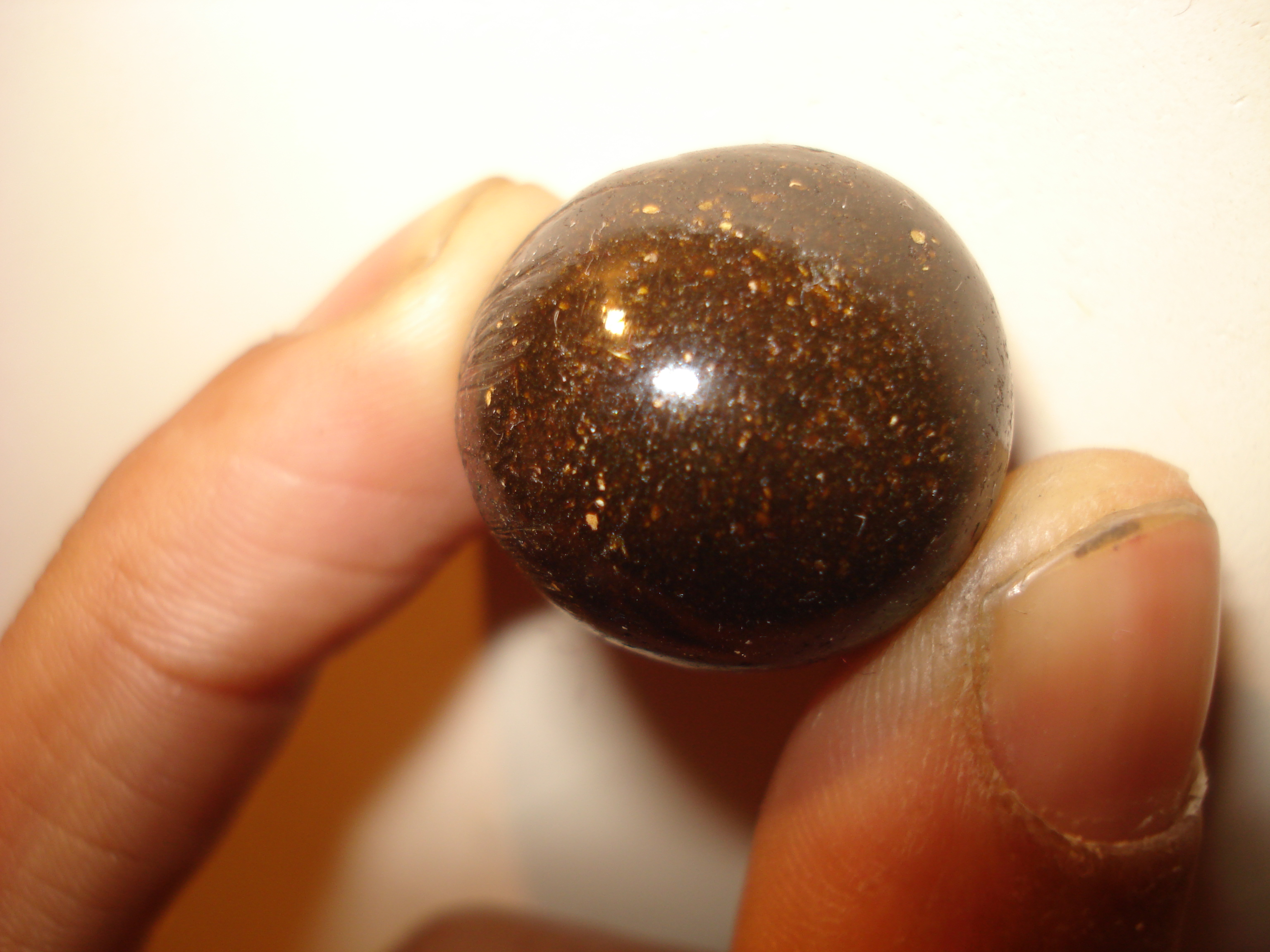 Charas hand-made hashish in India and Pakistan. Tosh Valley, North India.